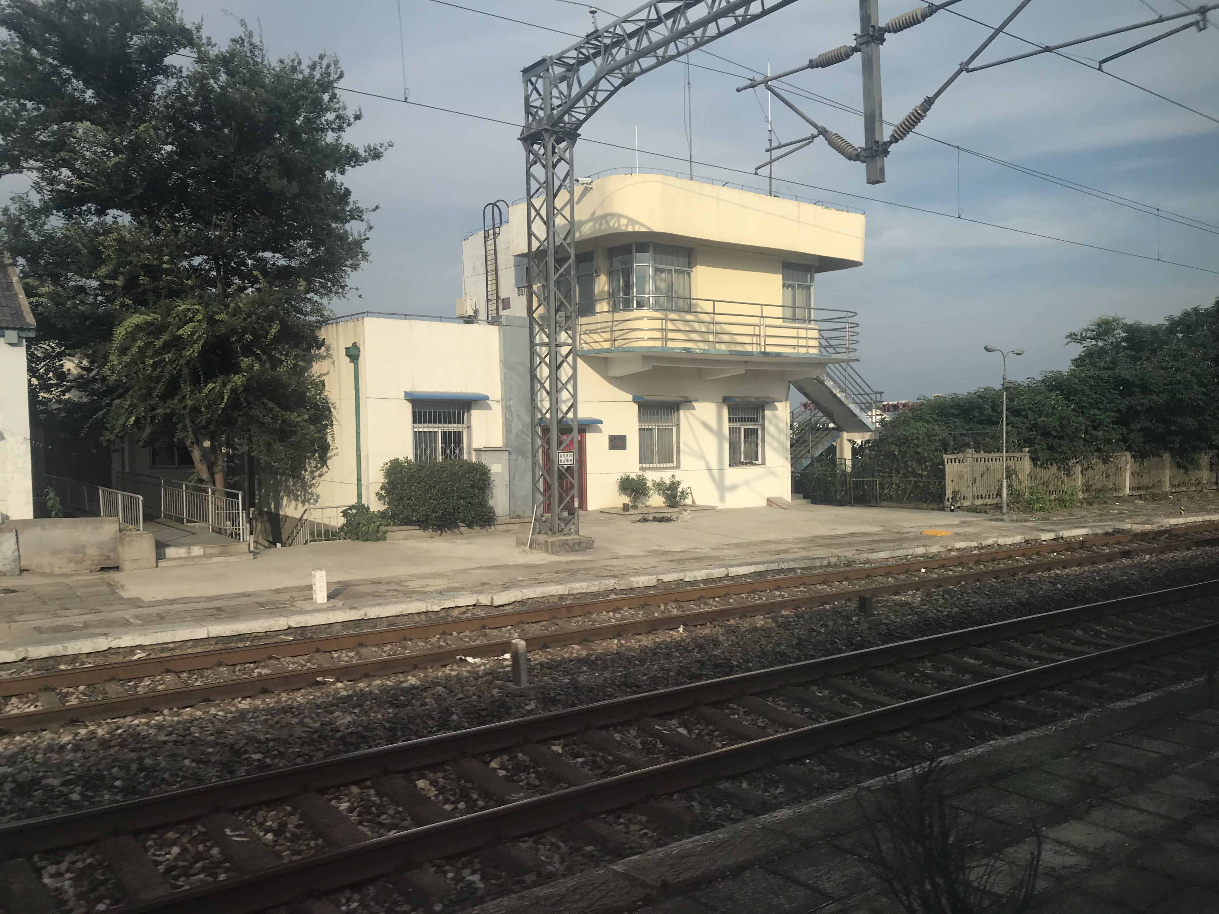 201806 Station Building of Zhangbaling Station